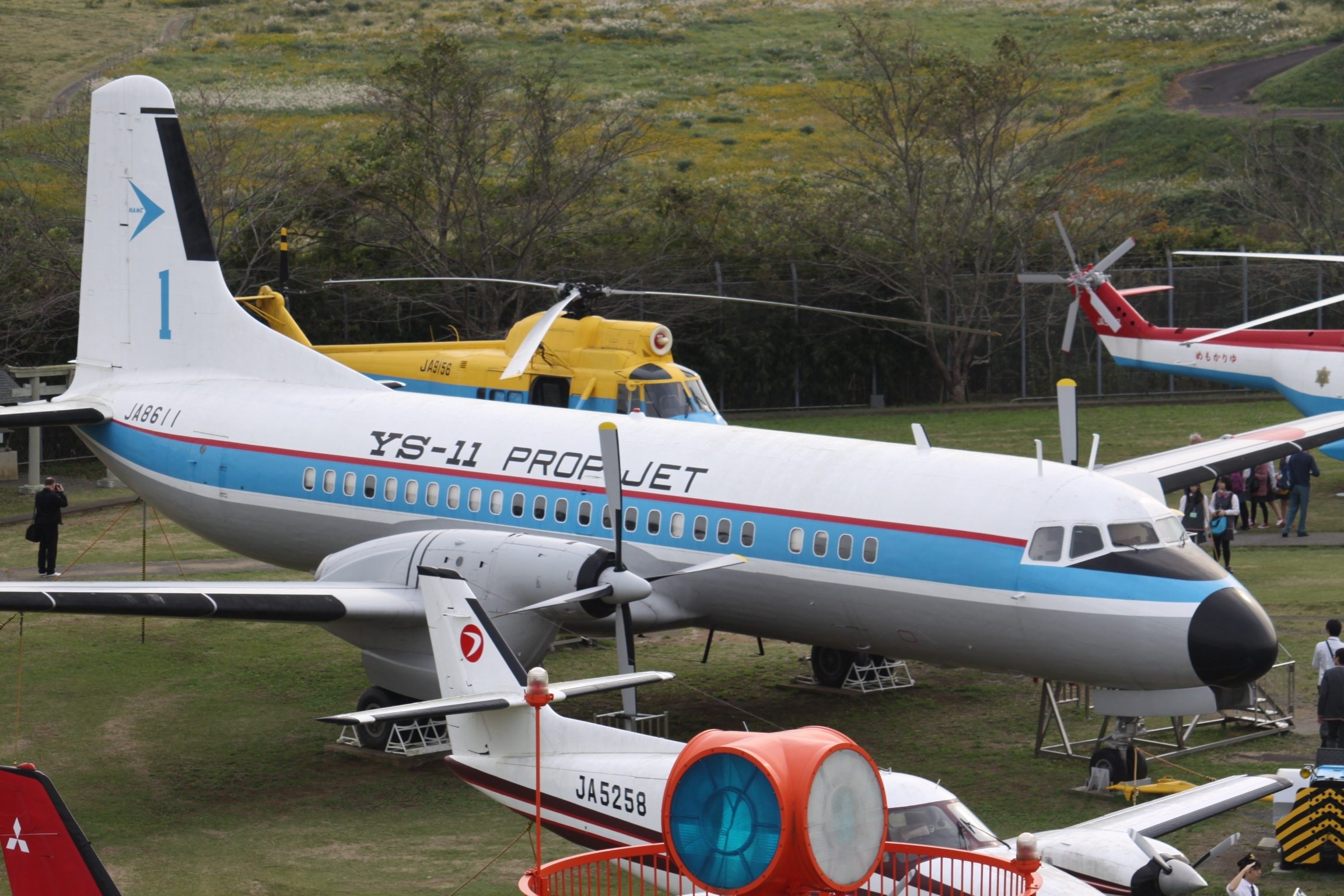 At Tokyo Narita International